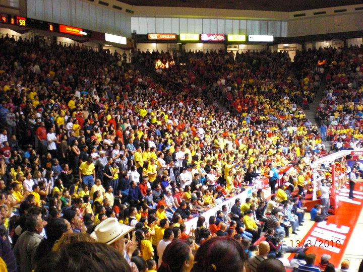 State Basketball Championship Game at University Arena in Albuquerque, New Mexico; Española Valley High School vs. Roswell High School boys teams (3-13-2010)